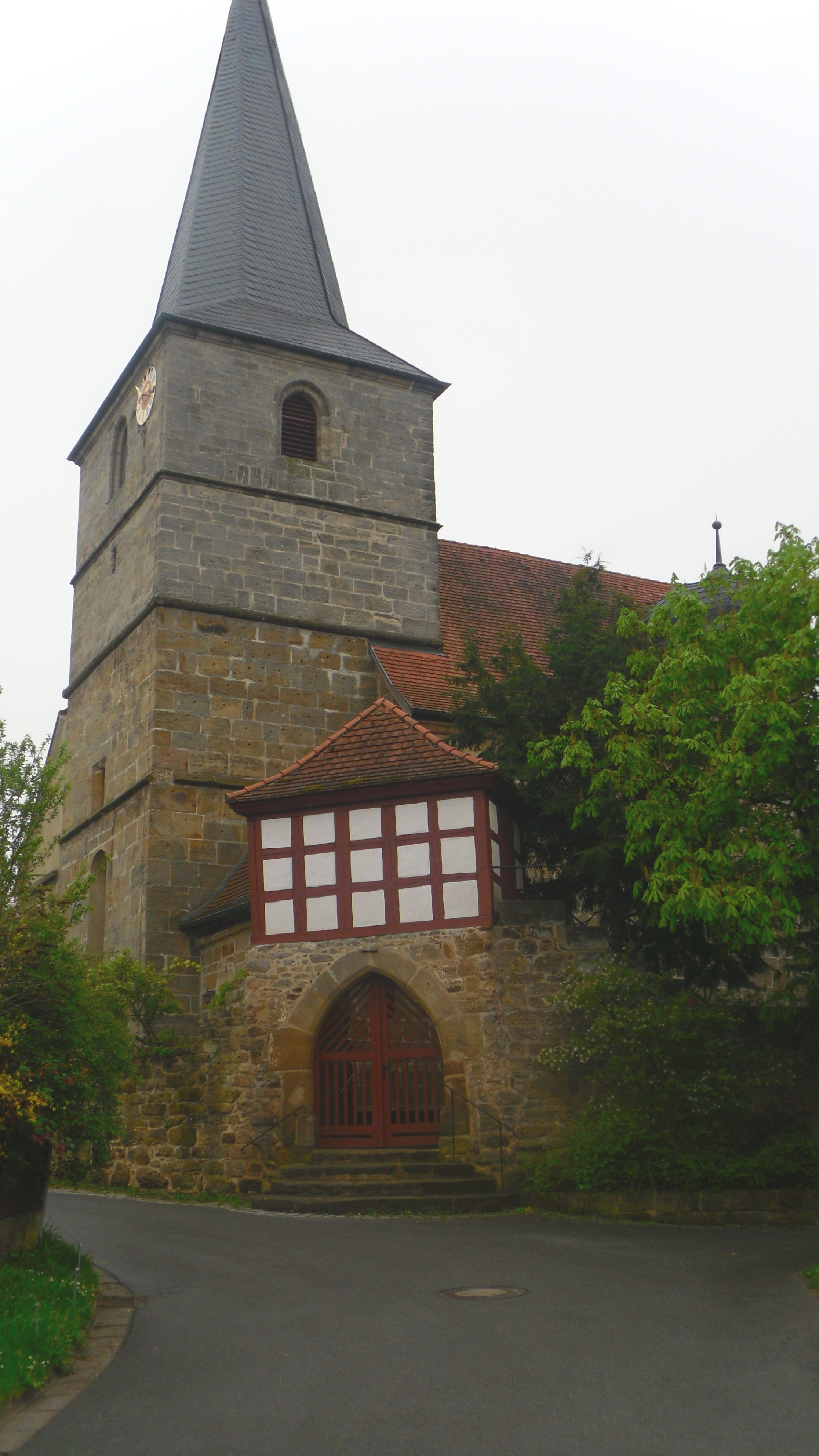 Church of Veilahm, borough of Mainleus